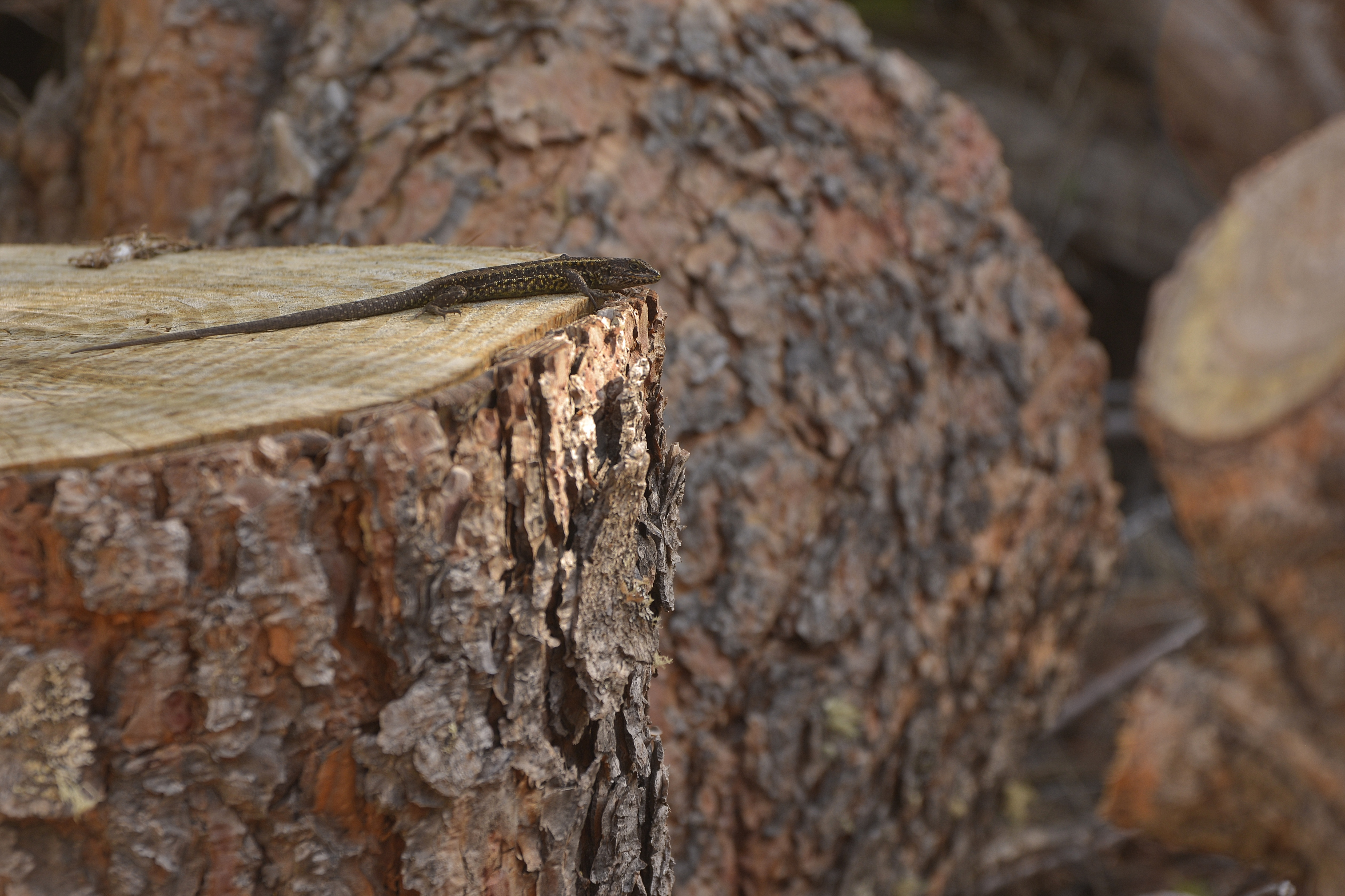 Bariloche lizard (Liolaemus pictus argentinus) basking in the sun